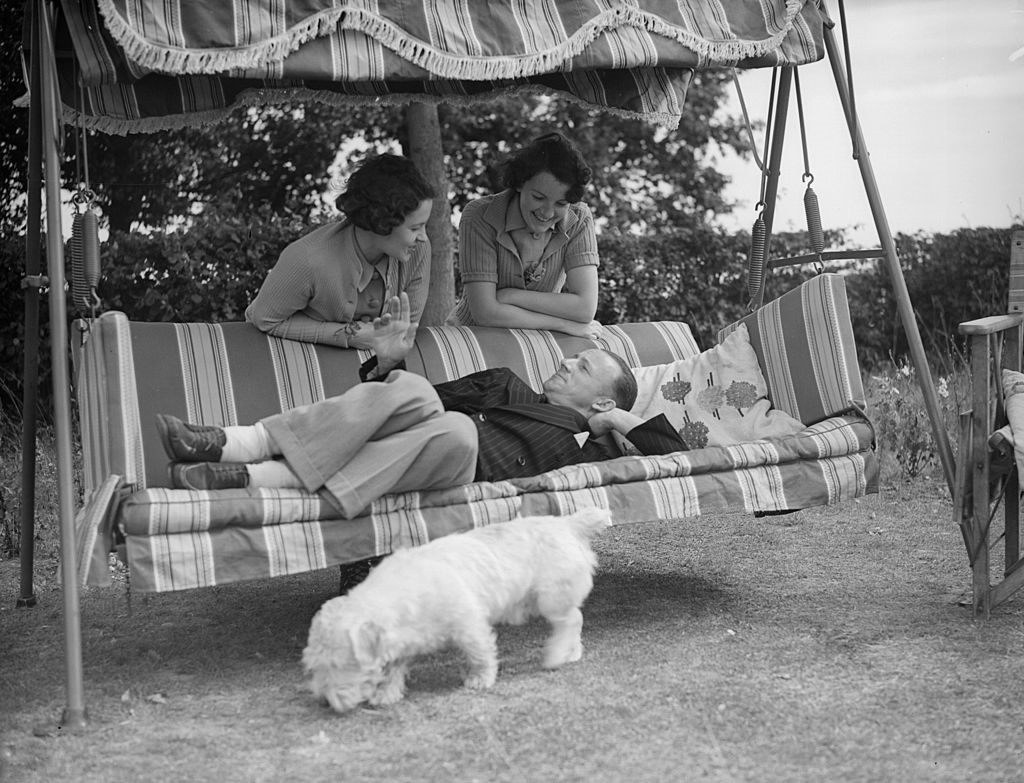 1938: Australian cricketer Don Bradman with his wife (left) and Mrs Robins at the Robins' house near Maidenhead, Berkshire in England.